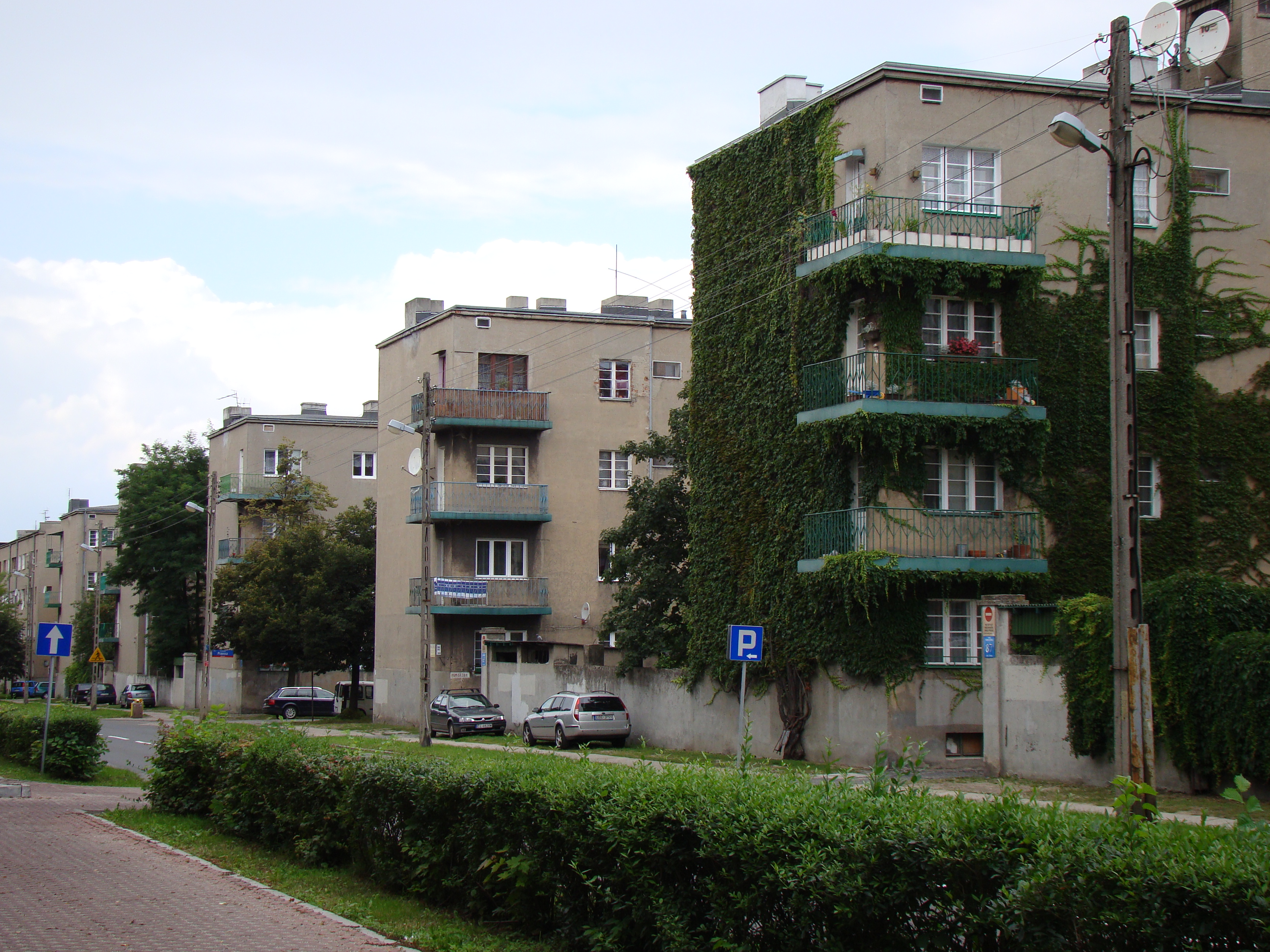 District of Łódź - Osiedle Montwiłła-Mireckiego (1)